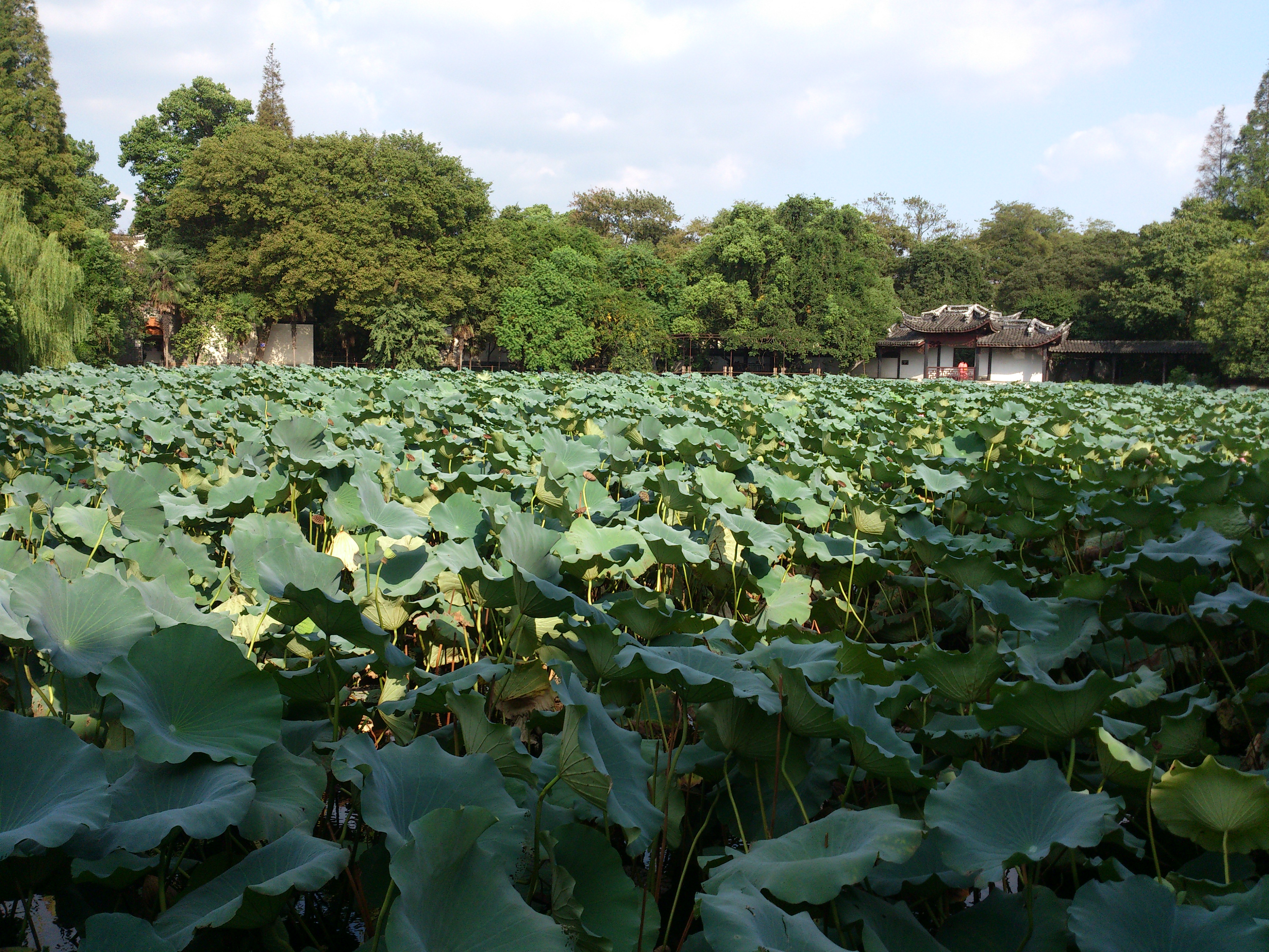 photo of Nanxun Ancient town, China